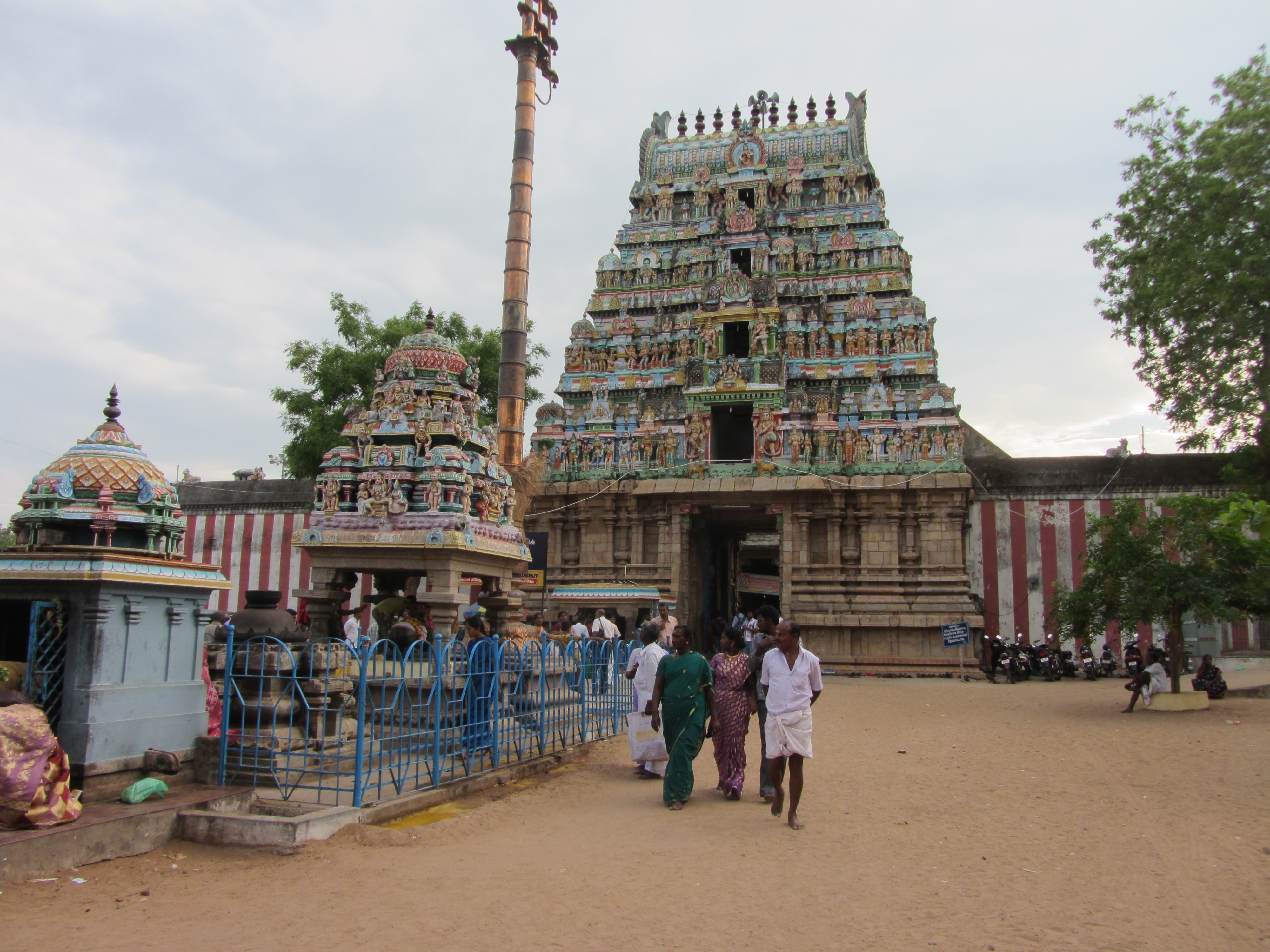 Seat of Lord Raahu, one of Navagrahas, near Kumbakonam, Tamilnadu